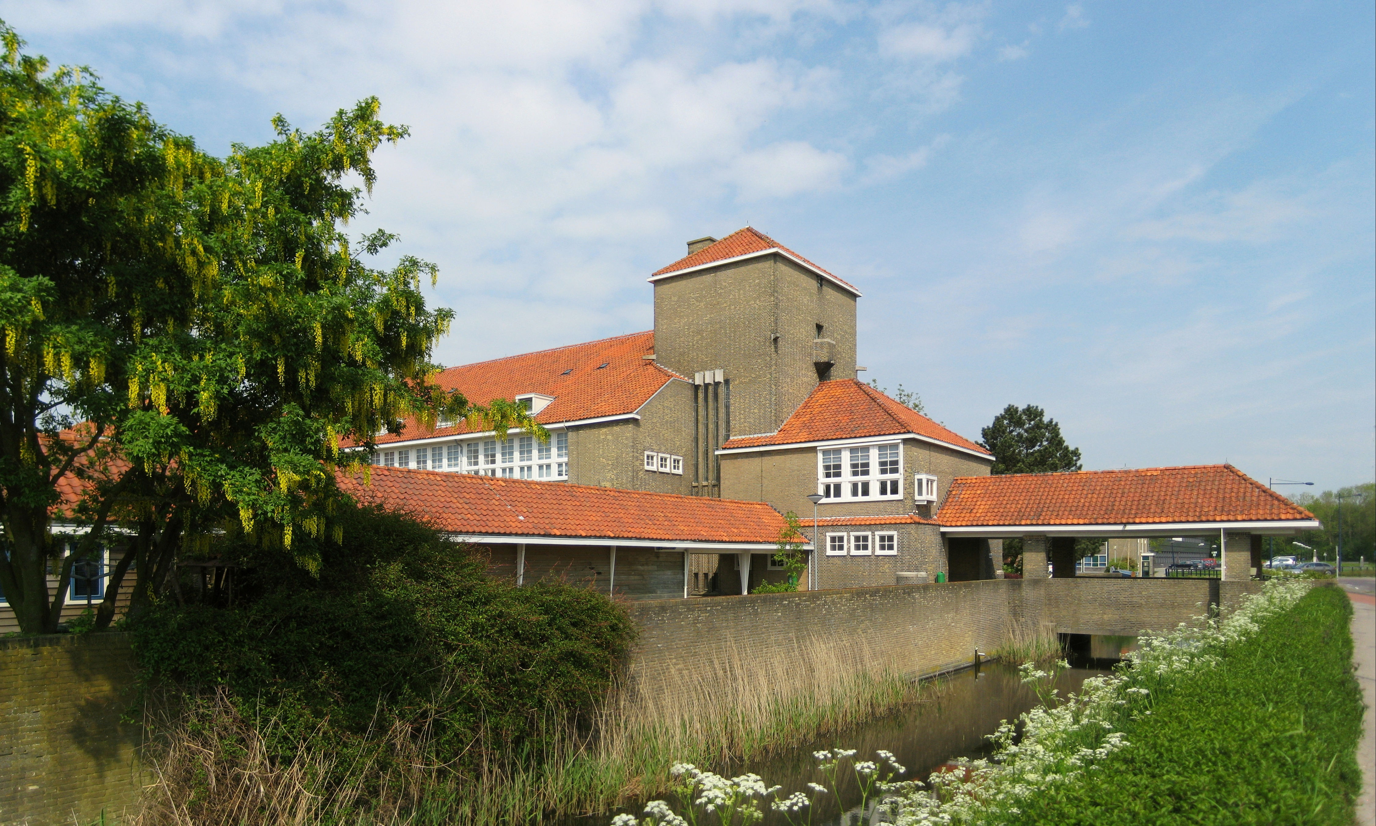 School (1926-1930) in Harlingen, a city in the Dutch province of Fryslân.